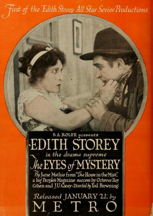 Advertisement in The Moving Picture World for the American film The Eyes of Mystery (1918) with Edith Storey and an unidentified actor.